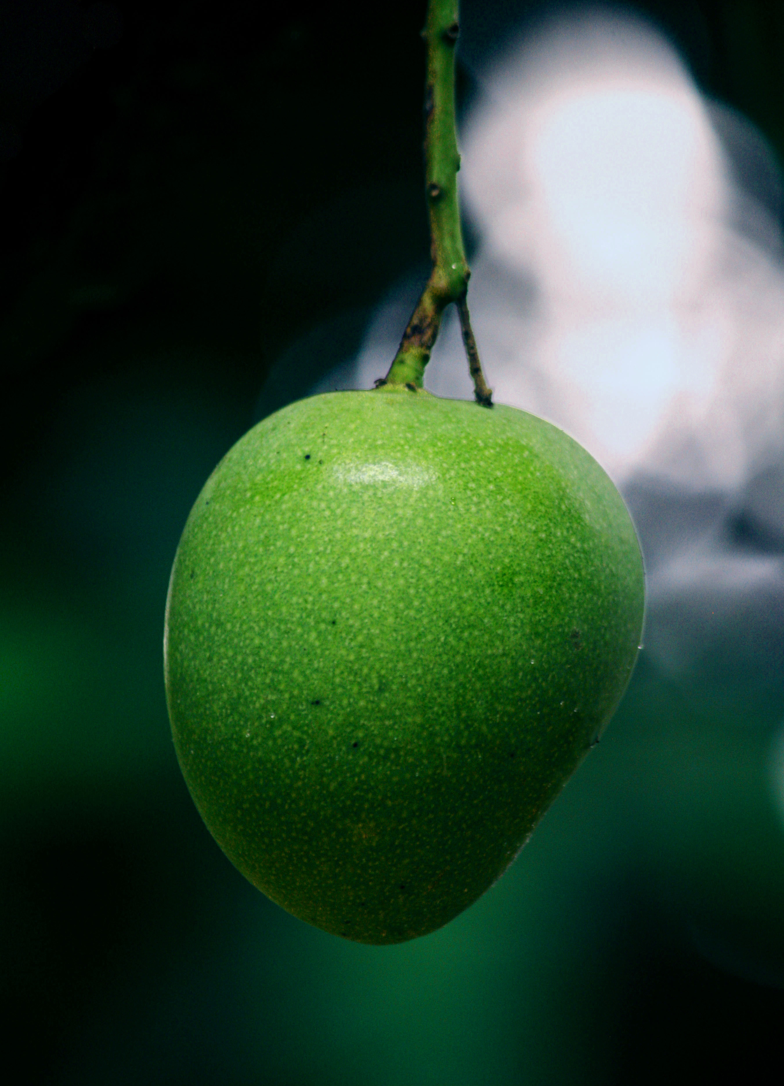 Mango